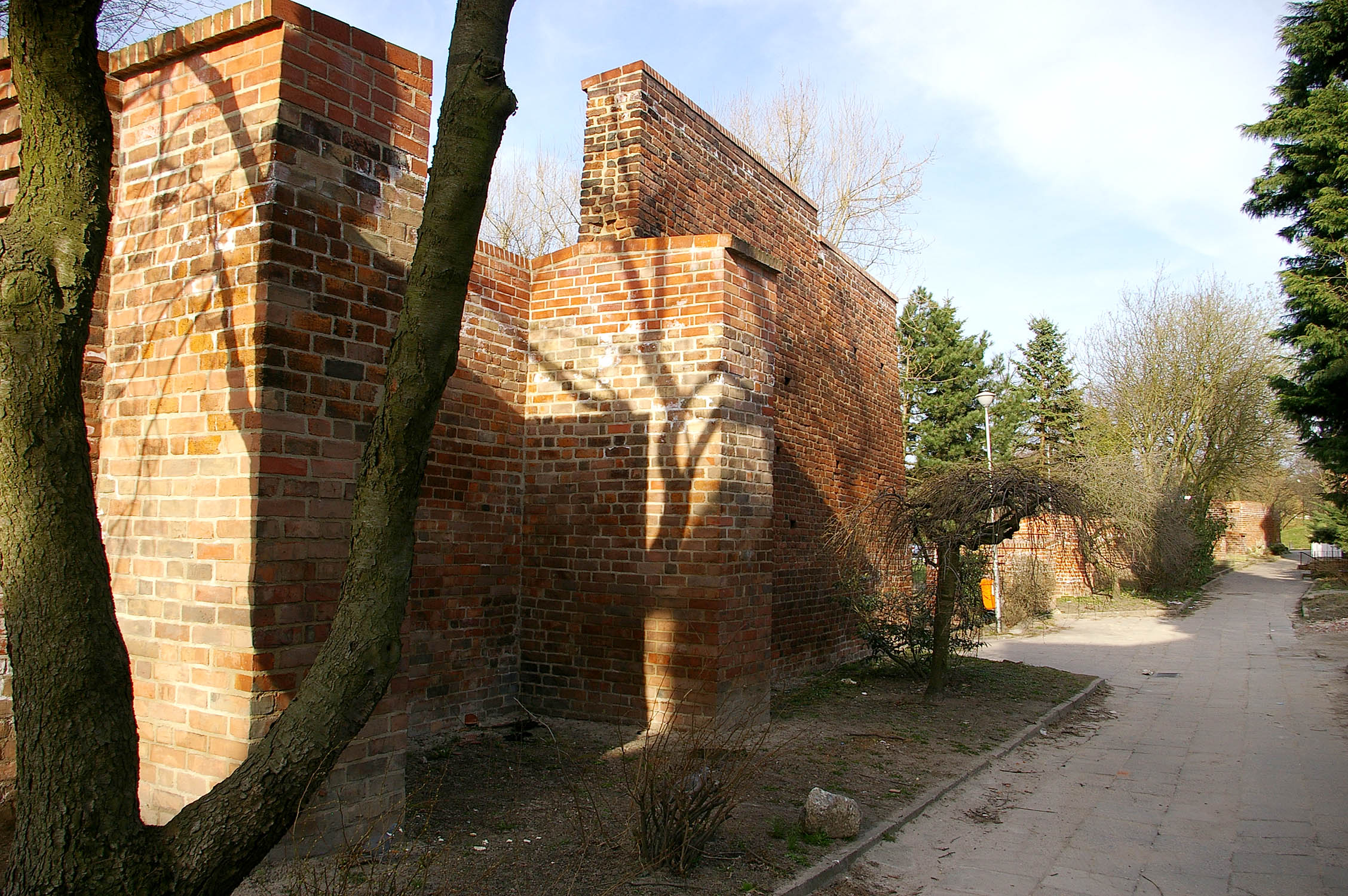 Defensive walls in Koszalin, Poland